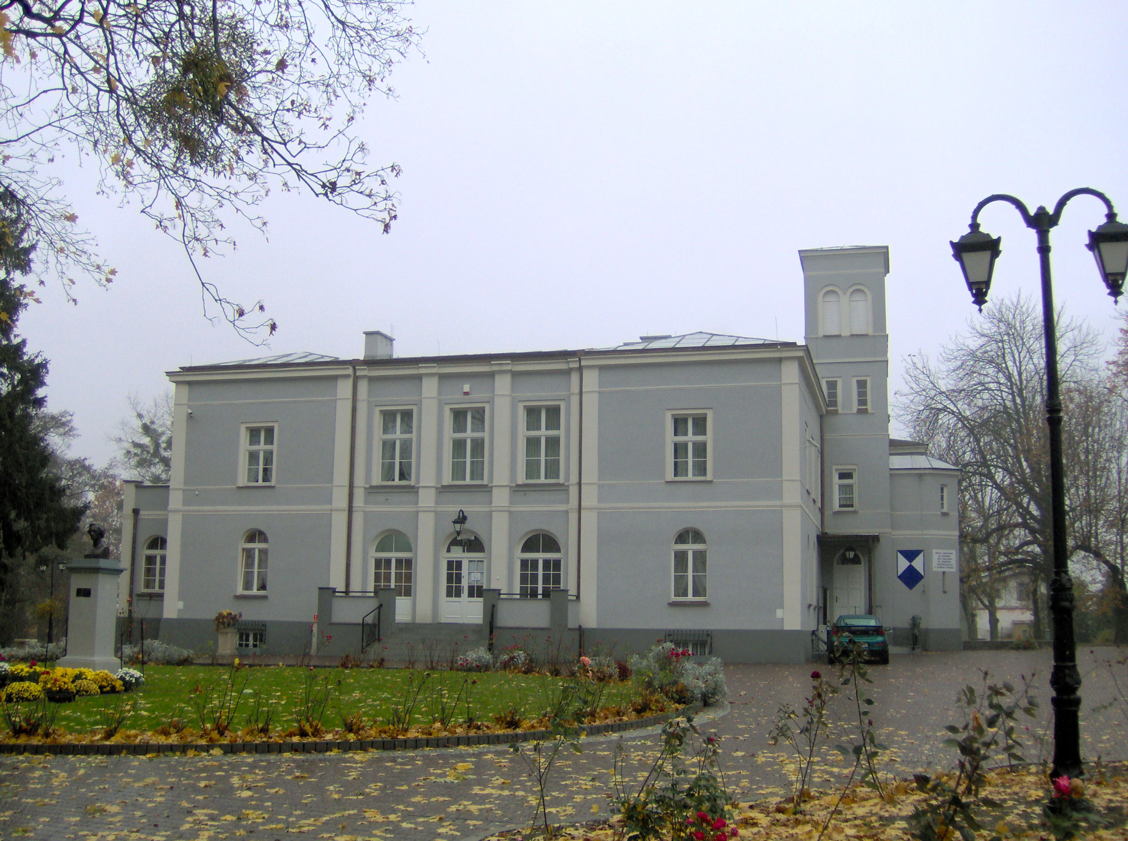 Manor Hause in Szafarnia